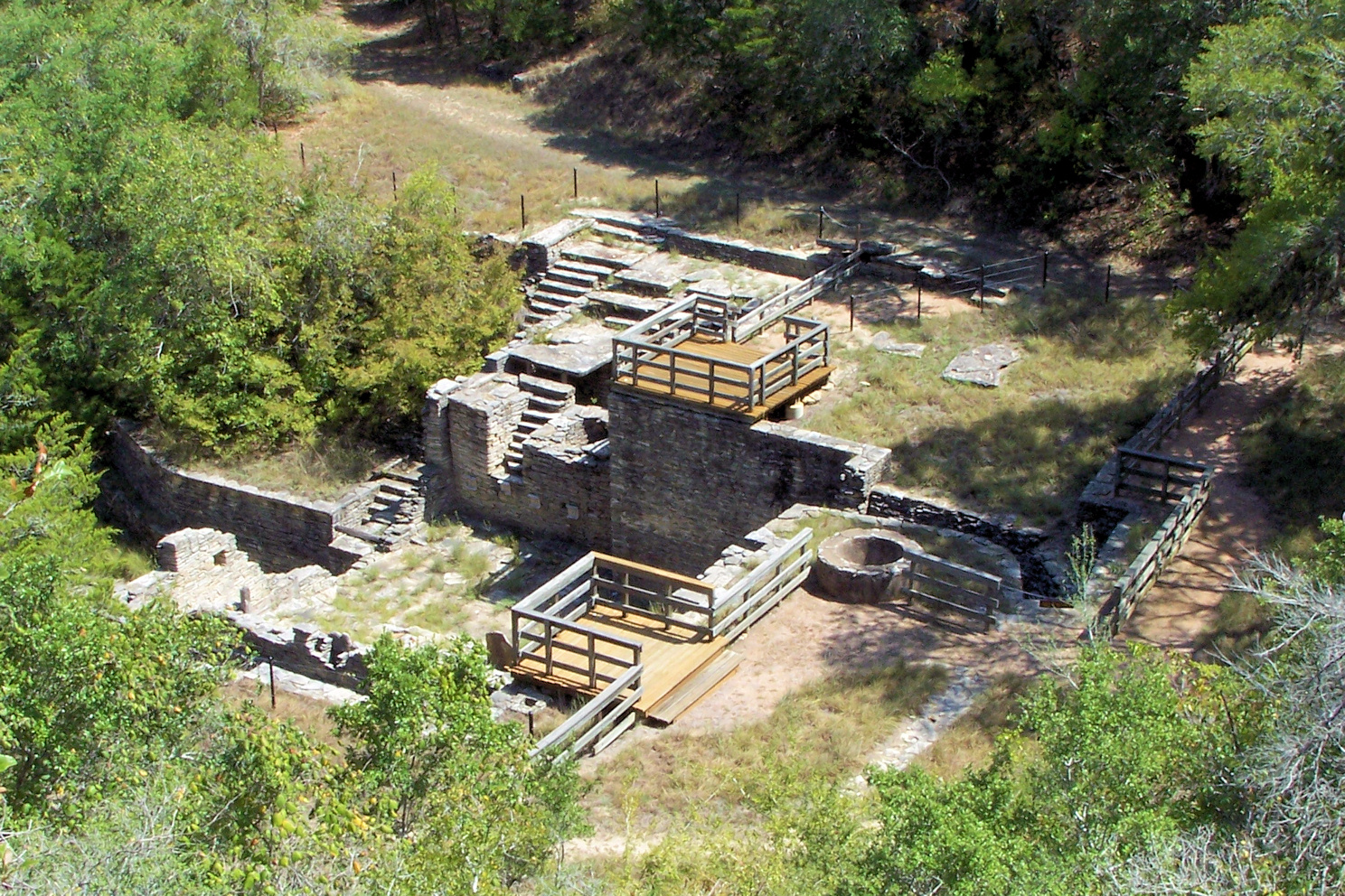 The remains of the Kreische Brewery at Monument Hill and Kreische Brewery State Historic Sites south of La Grange, Texas, United States.